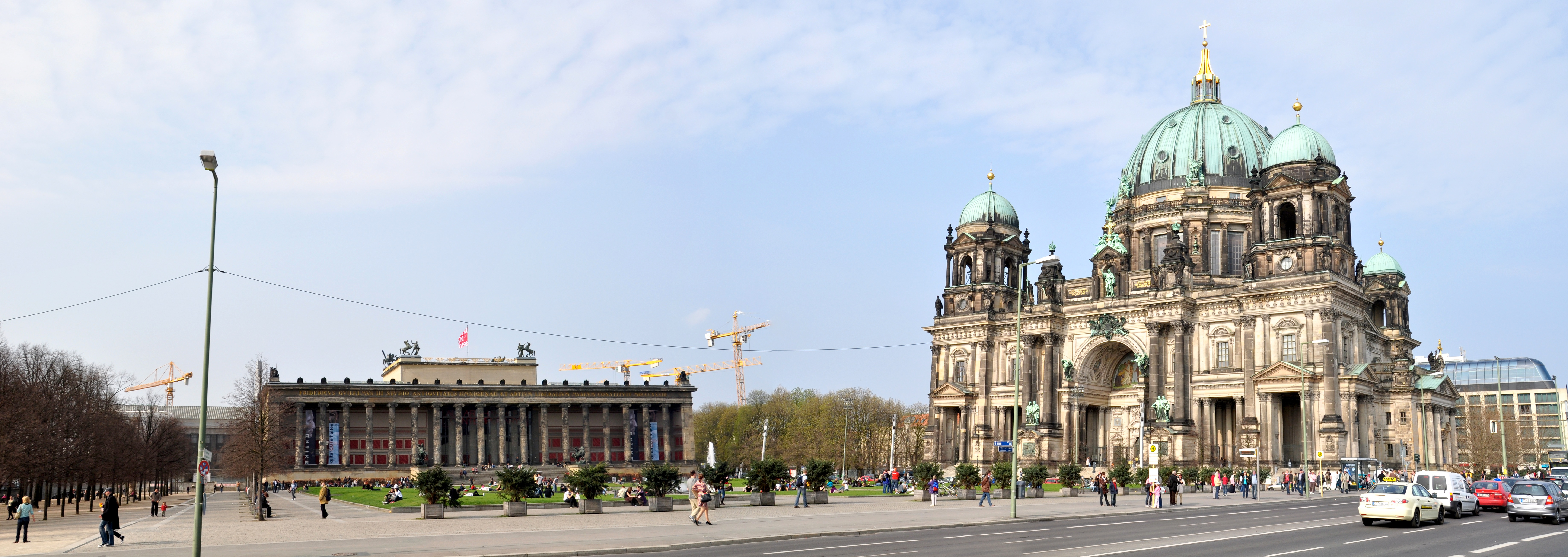 Berliner Dom and Altes Museum on Museum Island in Berlin, Germany